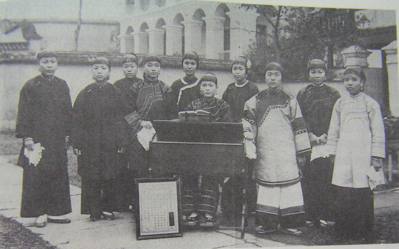 Students of Ponasang Women's College Mìng-dĕ̤ng-ngṳ̄: Ùng-săng Nṳ̄-dṳ̆ng Hŏk-sĕng